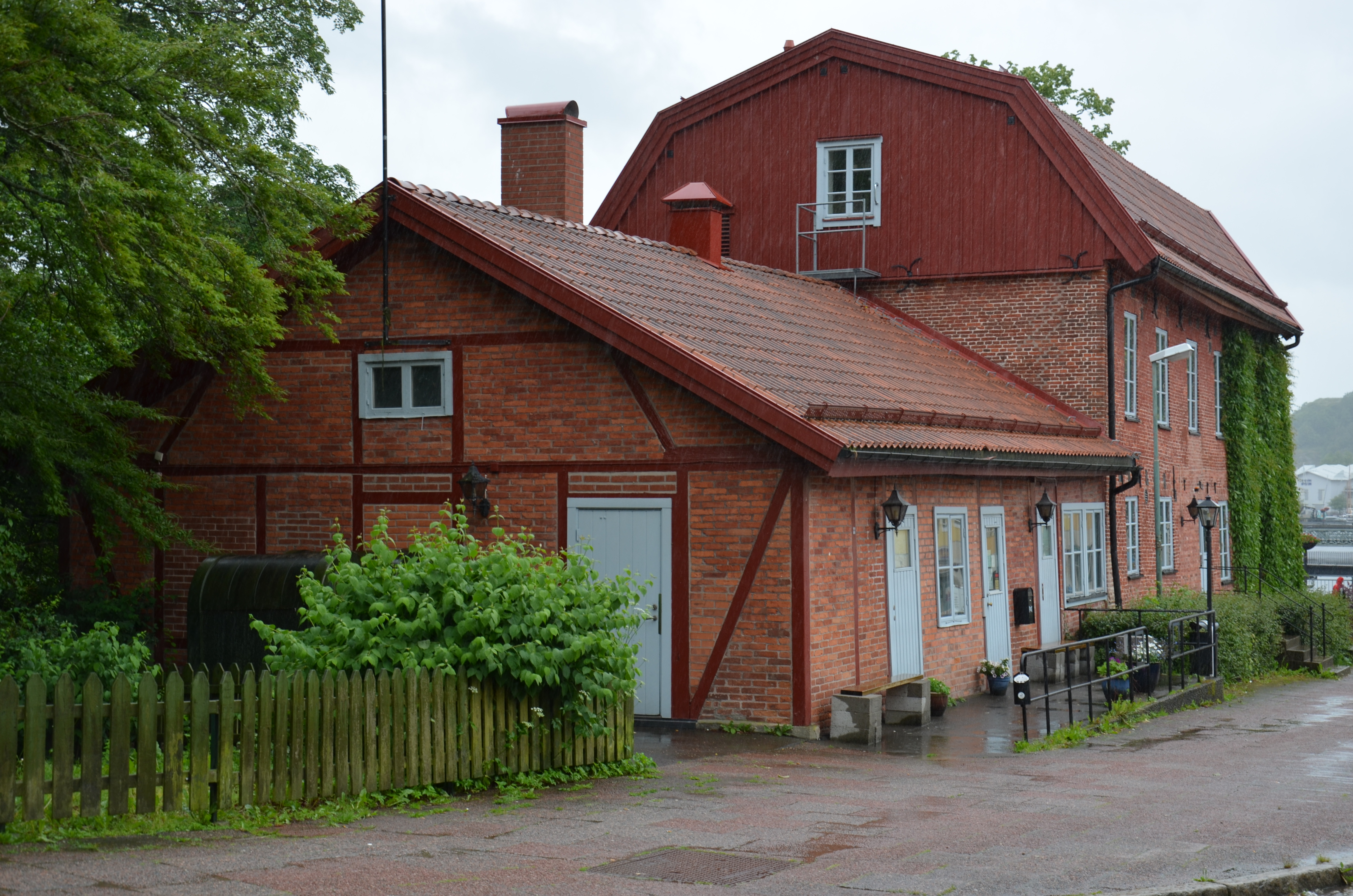 Hasselbackshuset Uddevalla